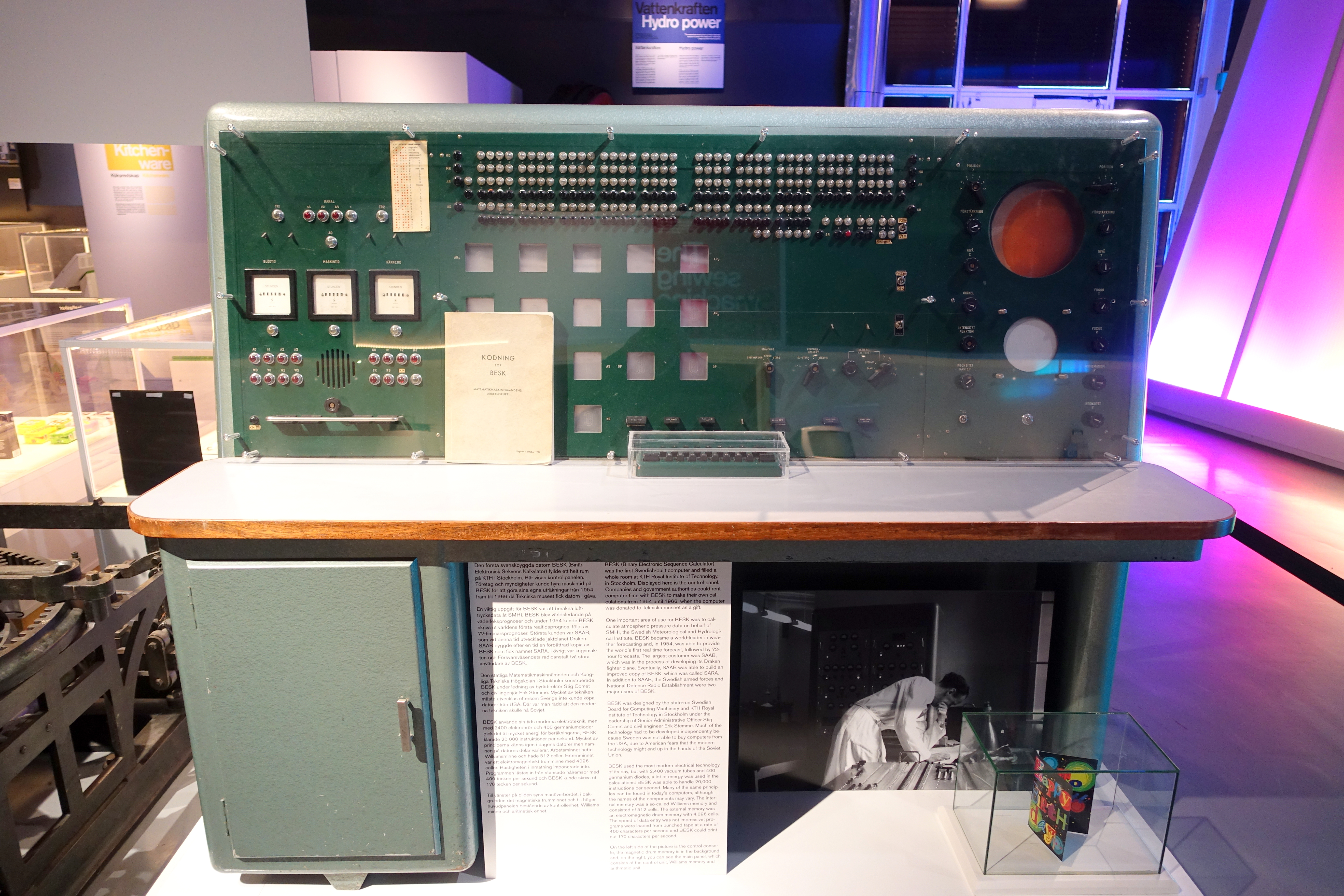 Exhibit in the Tekniska museet, Stockholm, Sweden. This work is old enough so that it is in the public domain.